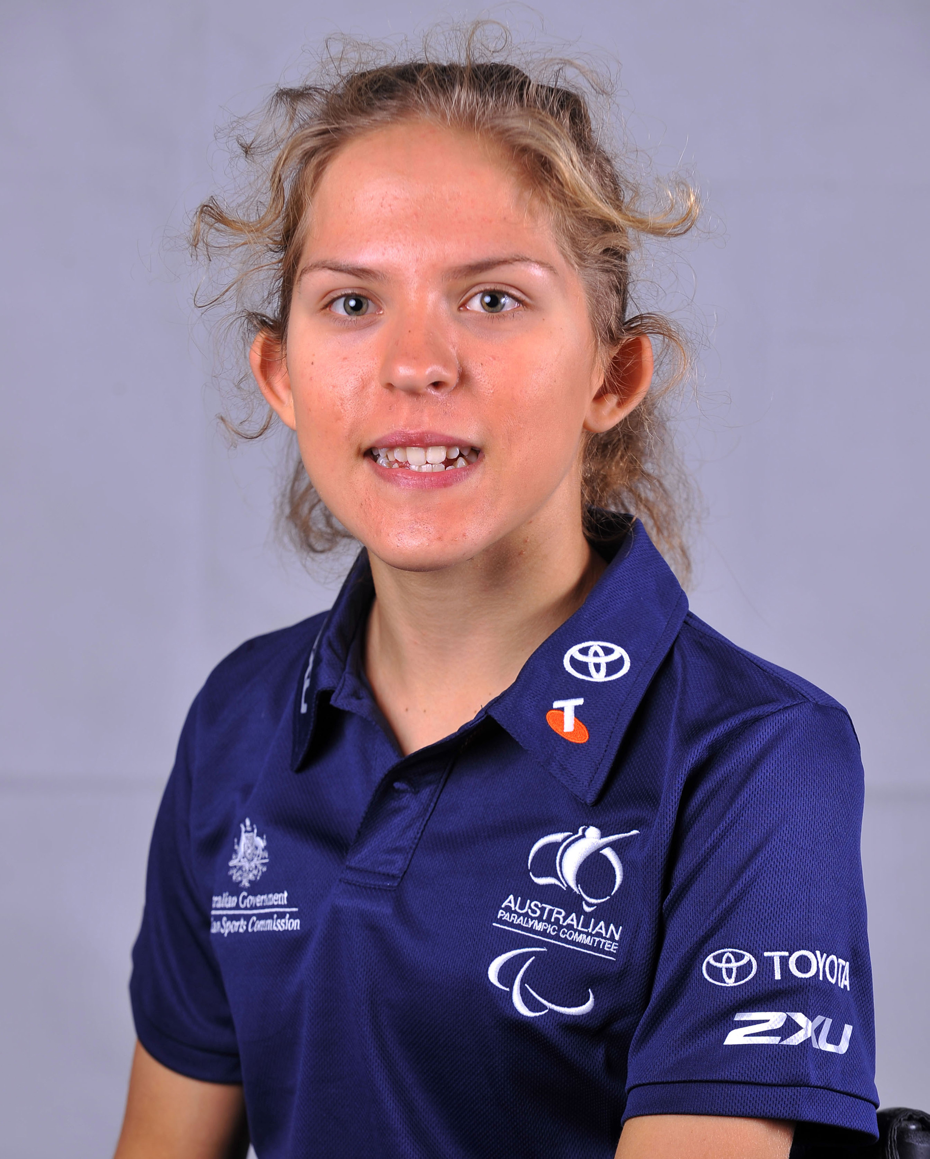 Portrait of Australian athlete Kristy Pond, 2012 Australian Paralympic (shadow) Team athlete